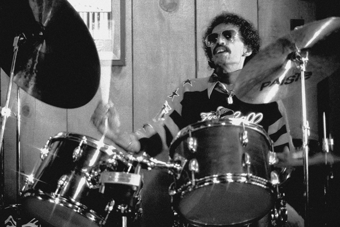 Dannie Richmond playing with George Adams, Don Pullen and Cameron Brown at Bach Dancing & Dynamite Society, Half Moon Bay CA 6/23/81.